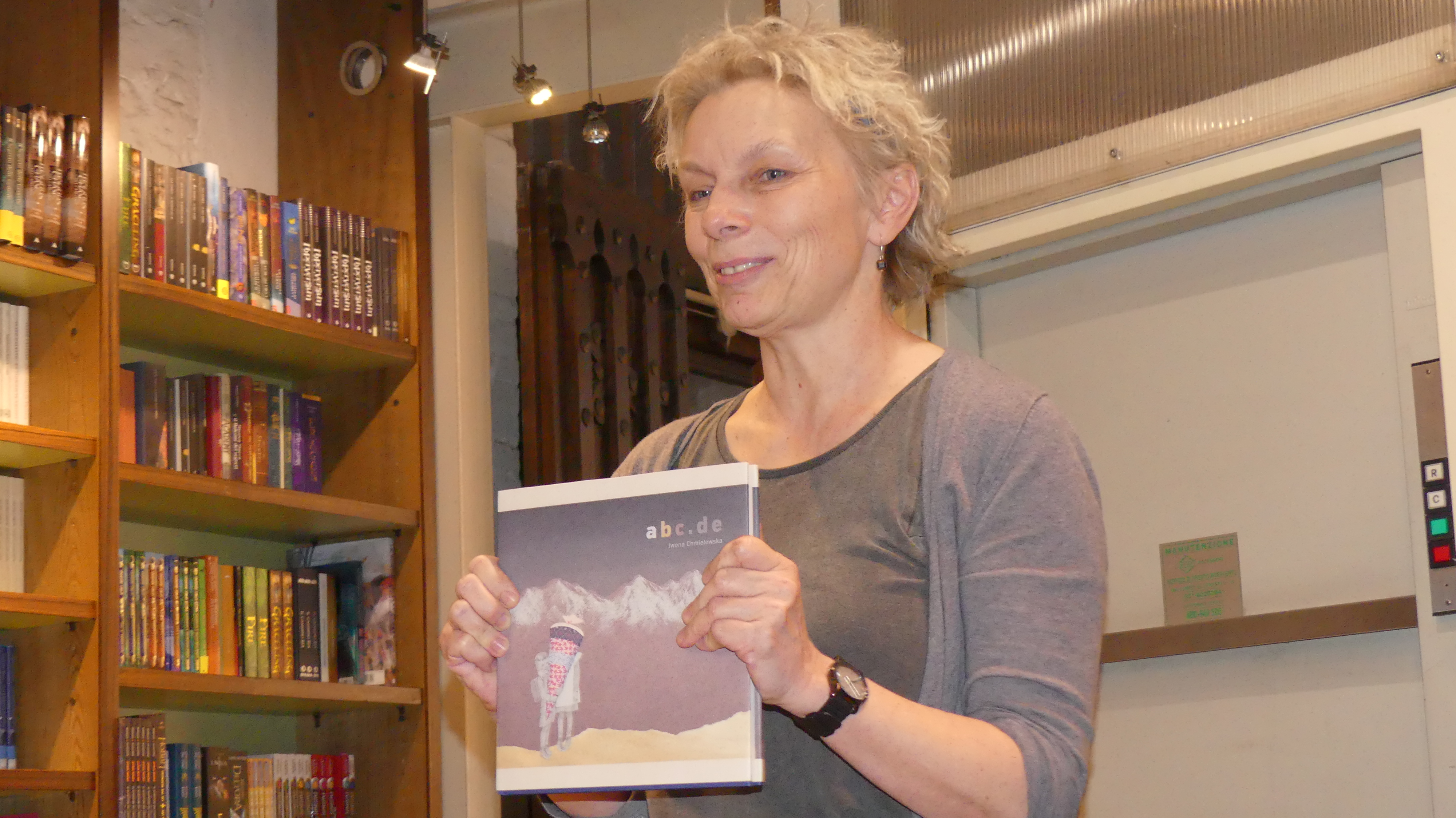 Iwona Chmielewska presenting her book abc.de at Libreria Giannino Stoppani in Bologna on April 6th, 2016